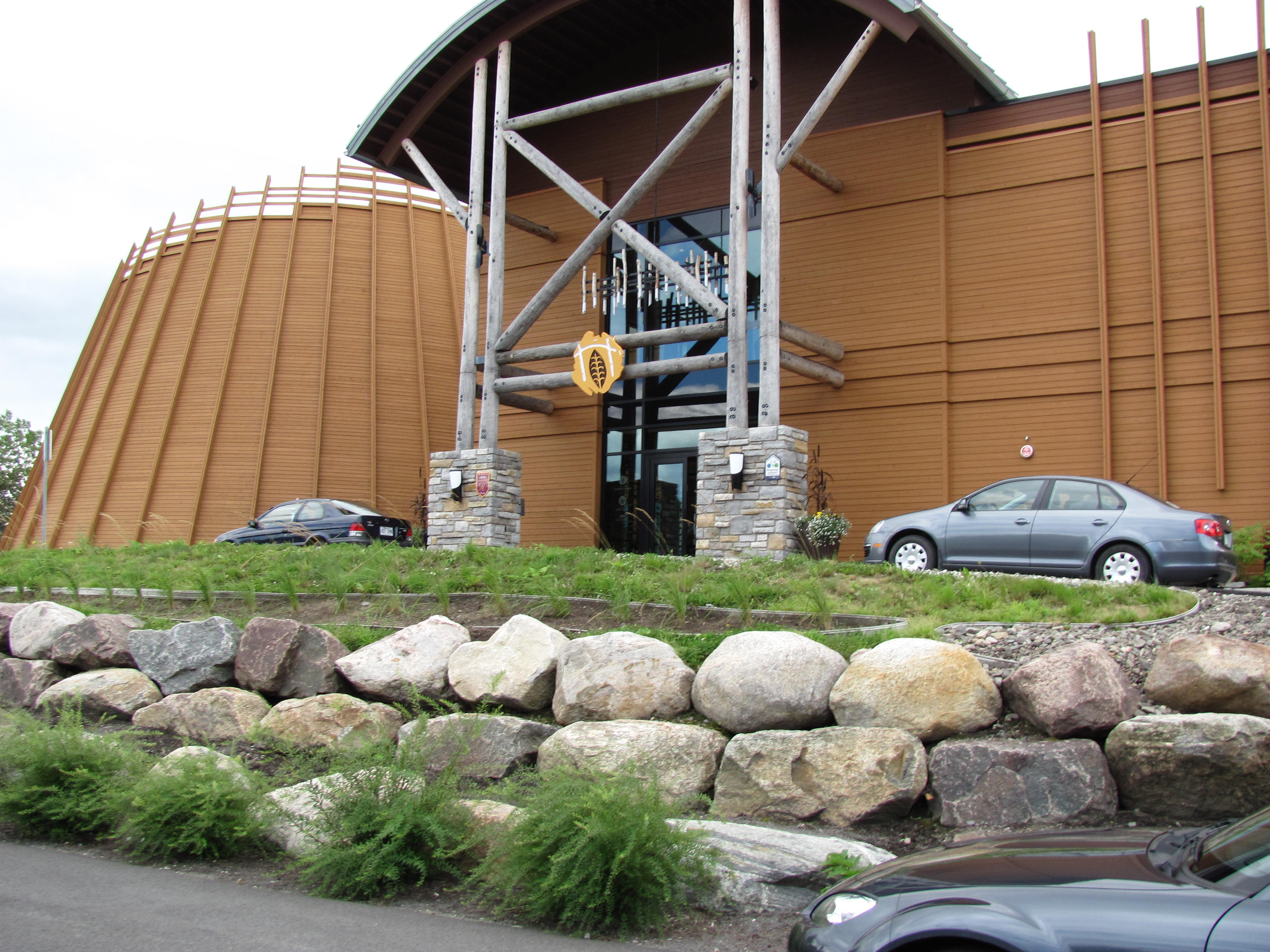 Hôtel-Musée Premières Nations located to Wendake, Québec, Canada.